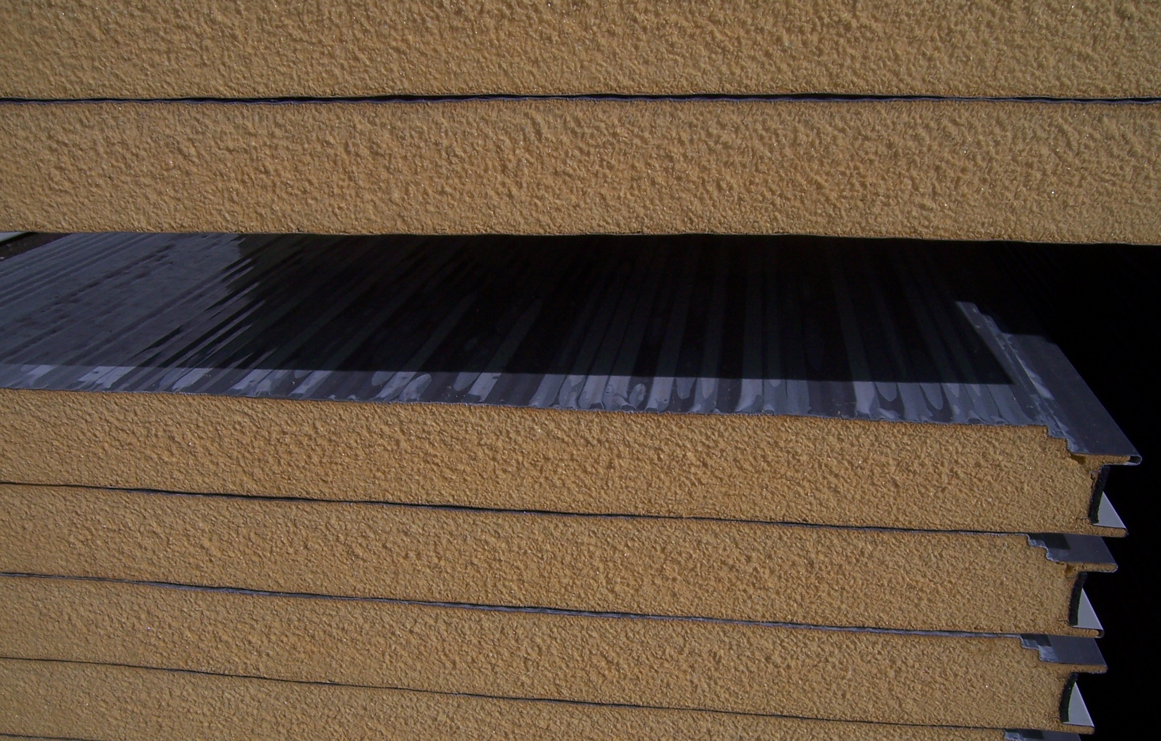 PUR Sandwichpanels delivered for construction purposes